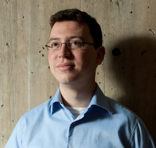 Picture of Luis von Ahn, MacArthur Fellows Program recipient 2006